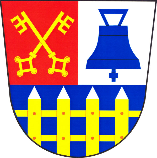 Municipal coat of arms of Nupaky village, Prague-East District, Czech Republic.